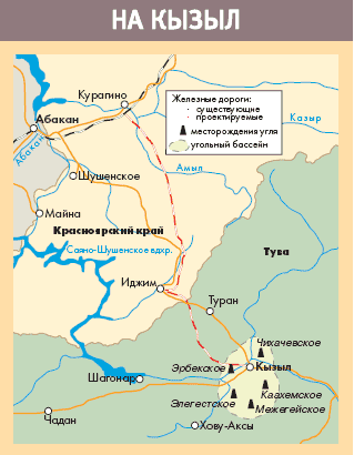 A railway project Kuragino - Kyzyl and coal deposits Ulug-Khem coal basin